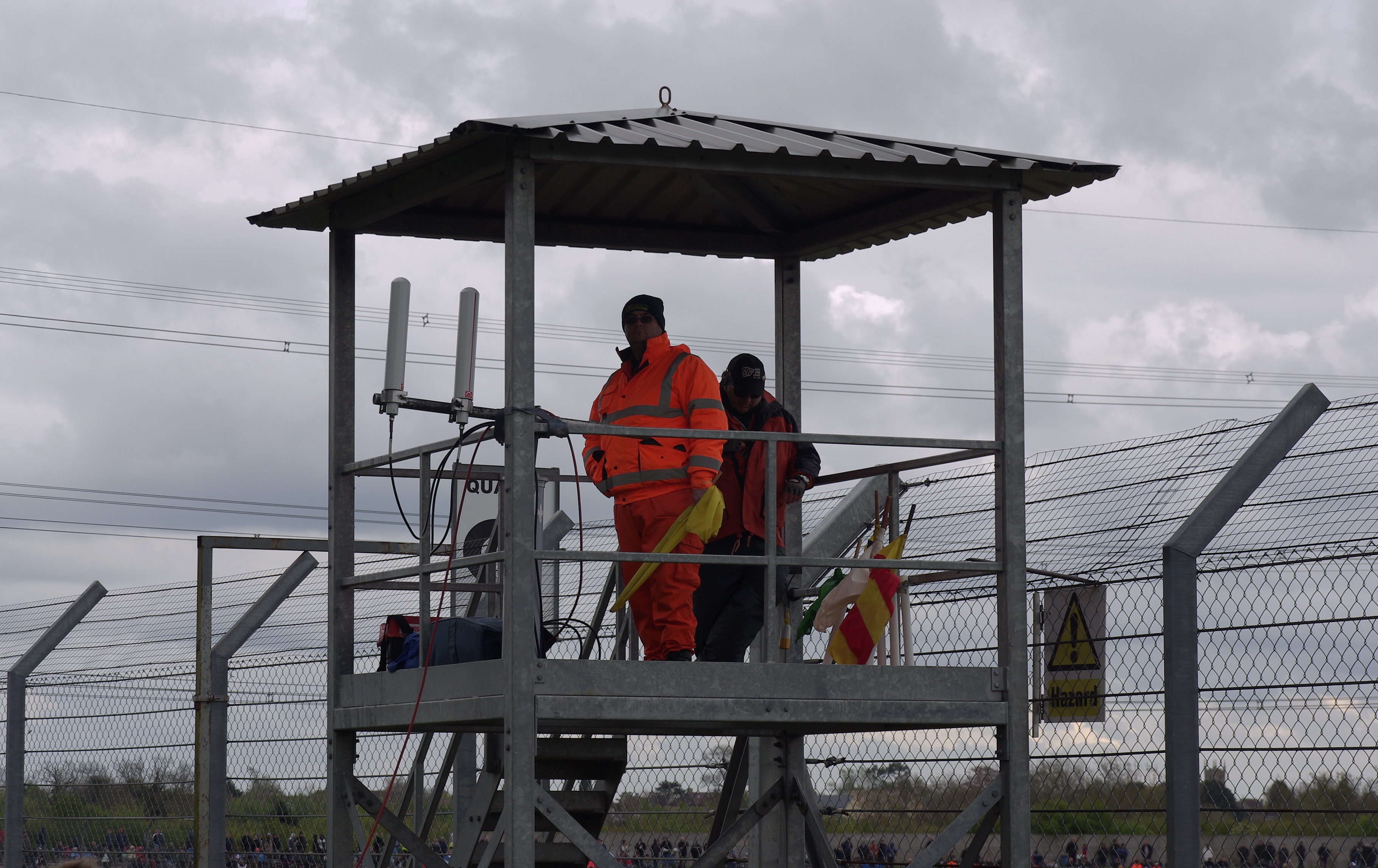 Marshals by Quarry Corner/Avon Rise, Castle Combe.